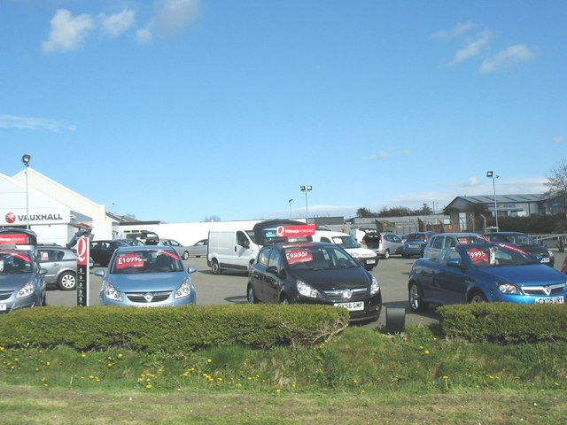 Used car dealers on the Industrial Estate